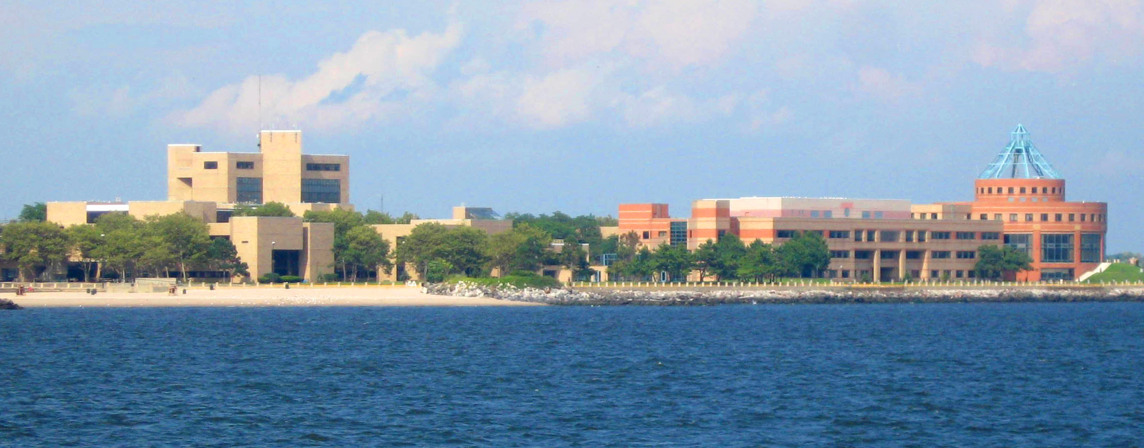 Looking northeast at Kingsborough Community College from a ferry in Jamaica Inlet on a sunny afternoon